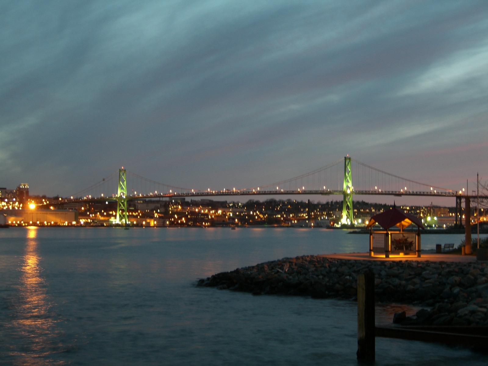 The Angus L. Macdonald Bridge in Halifax. Photo taken May 8, 2006.